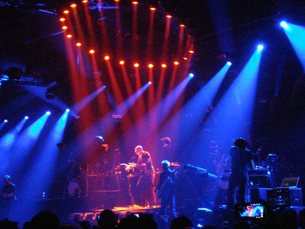 Schiller live (concert Sun) in 2012, Germany.